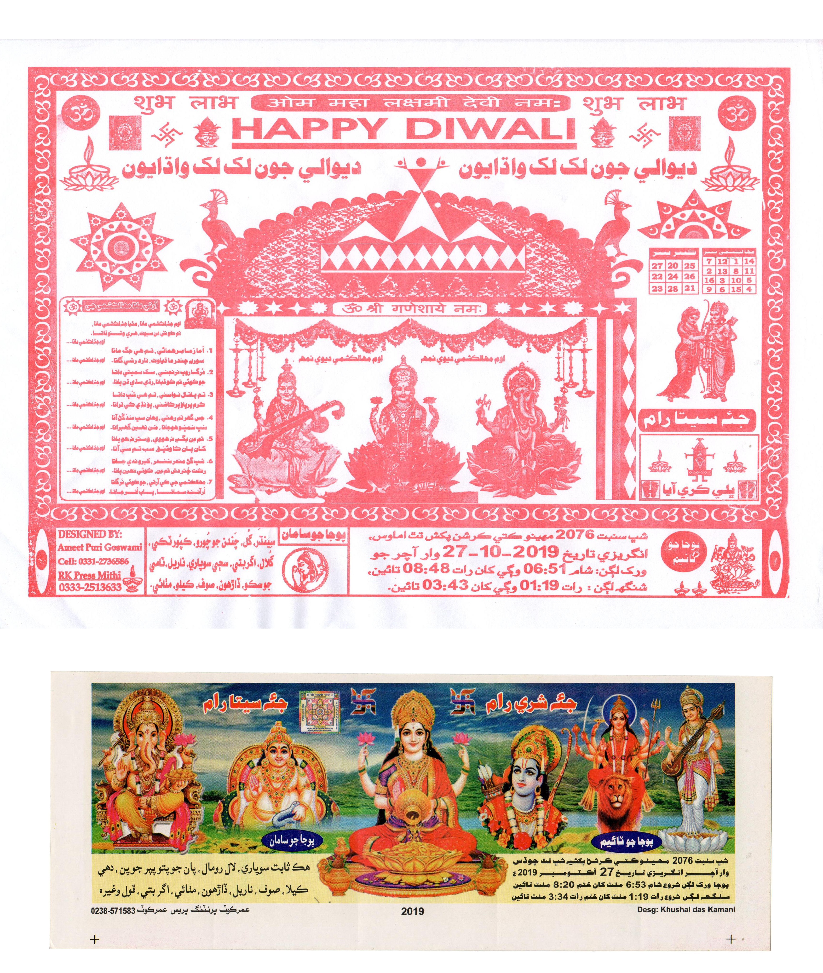 In Tharparkar during diwali festival the Brahmins irrespective of their social and economic prosperity follow their Brahmin Dharma by going door-to-door to get Bhikhsha Daan and they provide people such Diwali Patrikas. During the Muhurt Chittan or Lakshmi Chittan ritual, this Diwali Patrika having image of Lakshmi is placed or applied within the drawn (using twig of Neem or Ashok and red colour prepared mixing Kumkum, raw milk and Ganga Jal) pointed bell-shaped door frame.